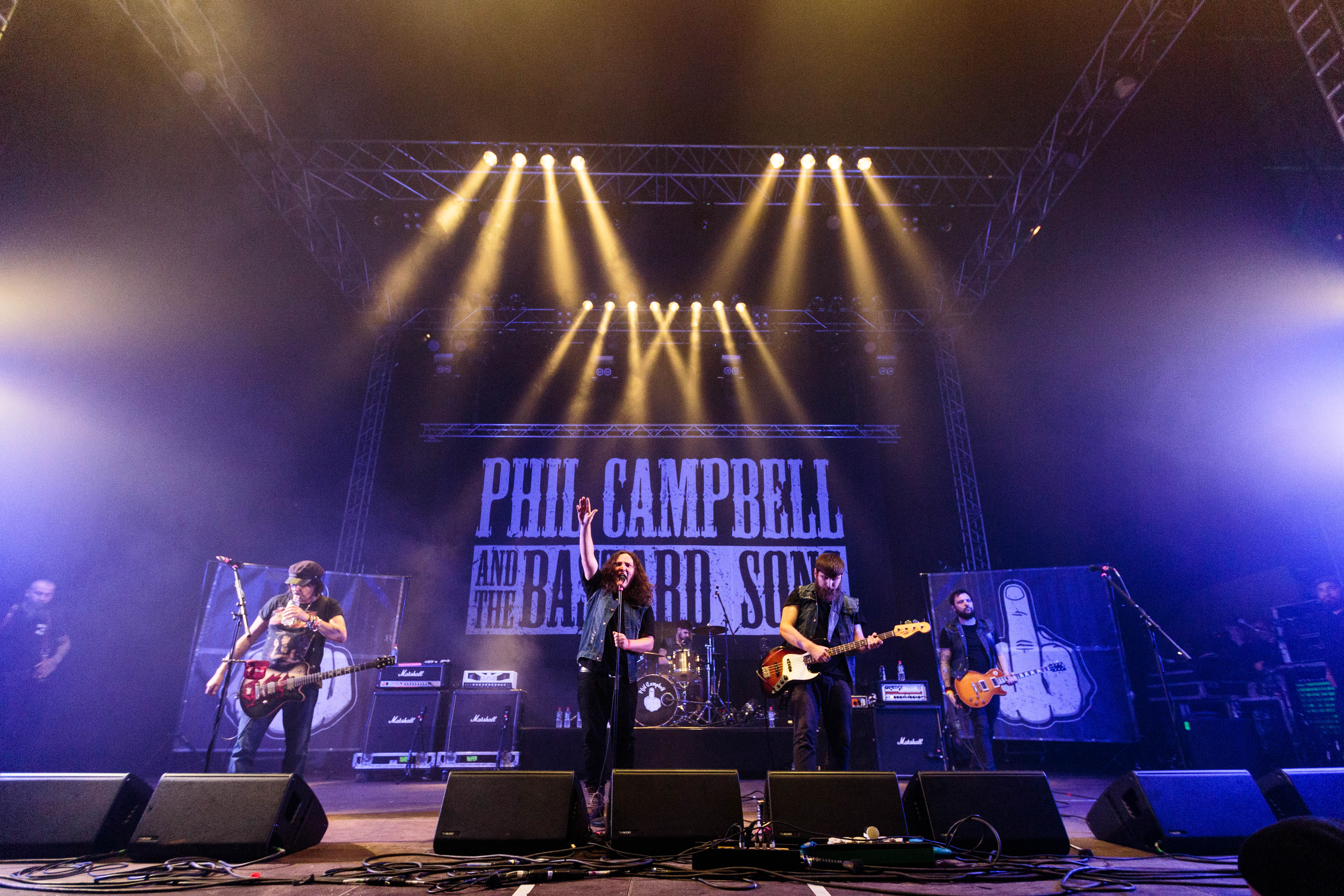 Wide angle shot of british Hard Rock group Phil Campbell & The Bastard Sons members Phil Campbell (Guitar), Neil Starr (Vocals), Tyle Campbell (Bass Guitar) and Todd Campbell (Guitar) at Wacken Open Air (2016), Blind Guardian Boulevard, (DEU) /// leokr.de for Wikimedia Commons